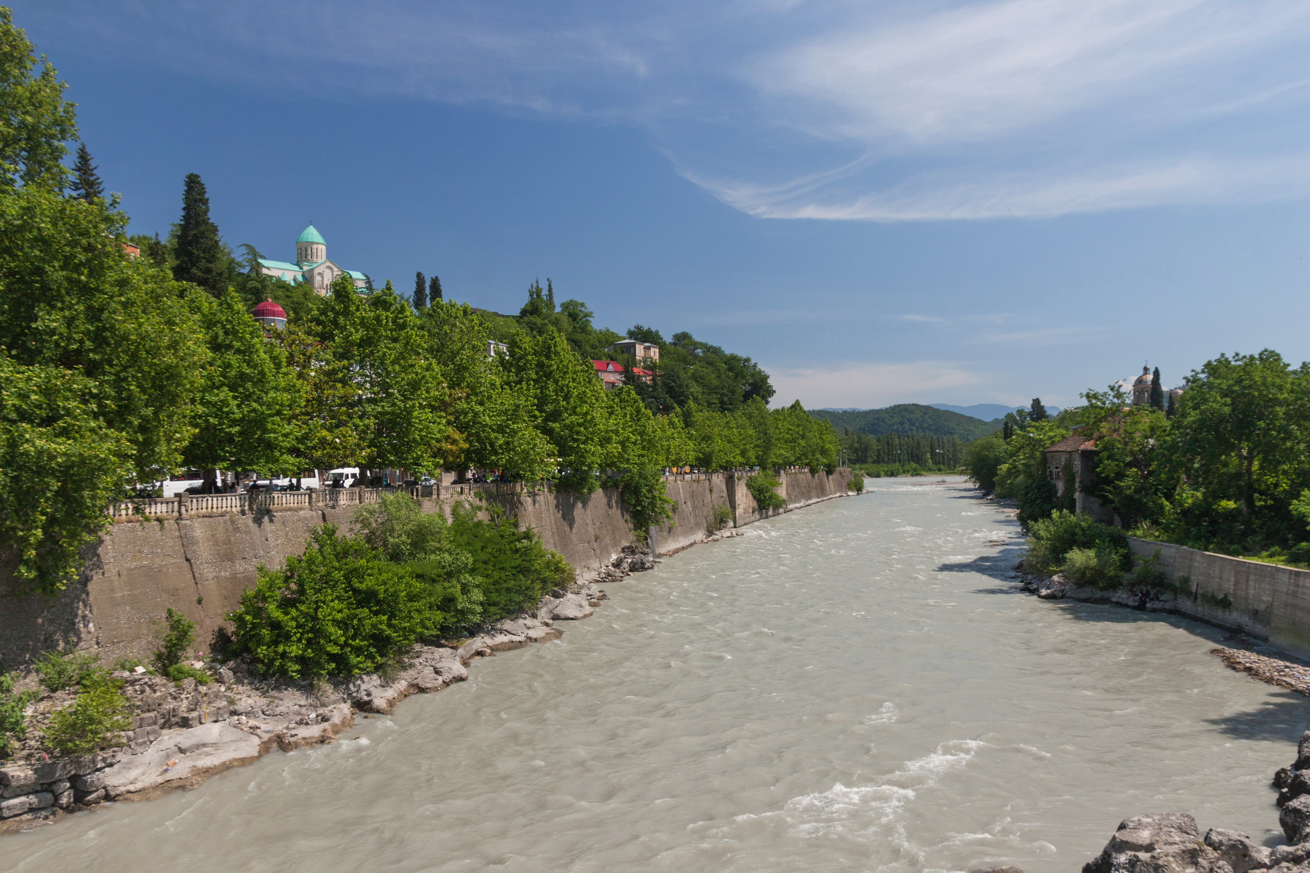 Rioni River seen from the Chain Bridge. Kutaisi, Imereti, Georgia.